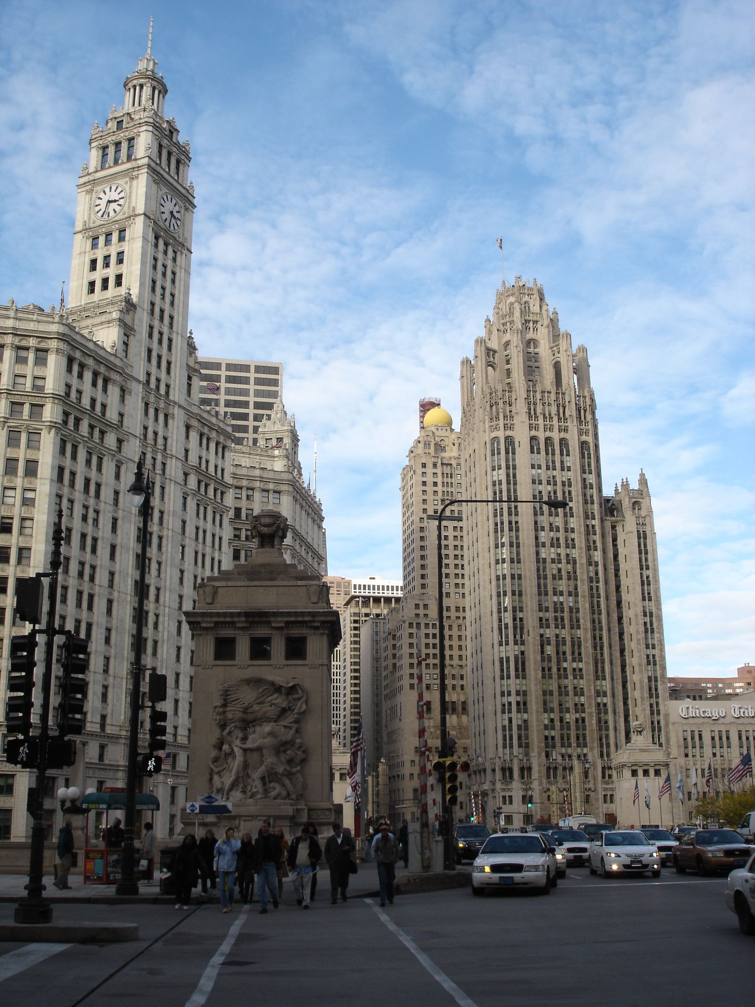 Magnificent Mile, Chicago, Illinois, USA (Wrigley Building, left; Tribune Tower, right